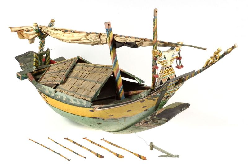 Model of a proa